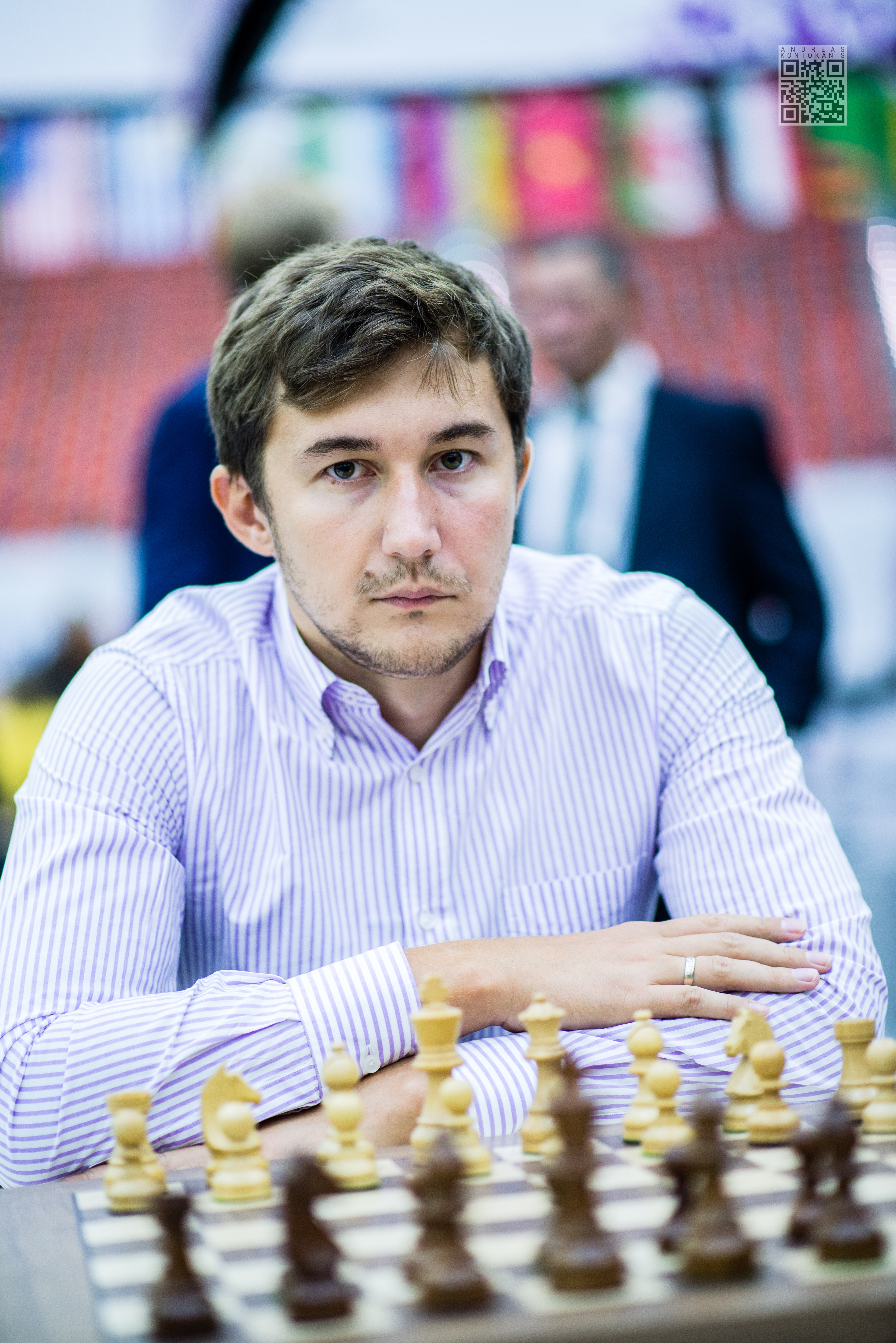 Karjakin Sergey